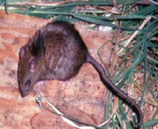 A picture of a Polynesian rat (R. exulans) in Hawaii.